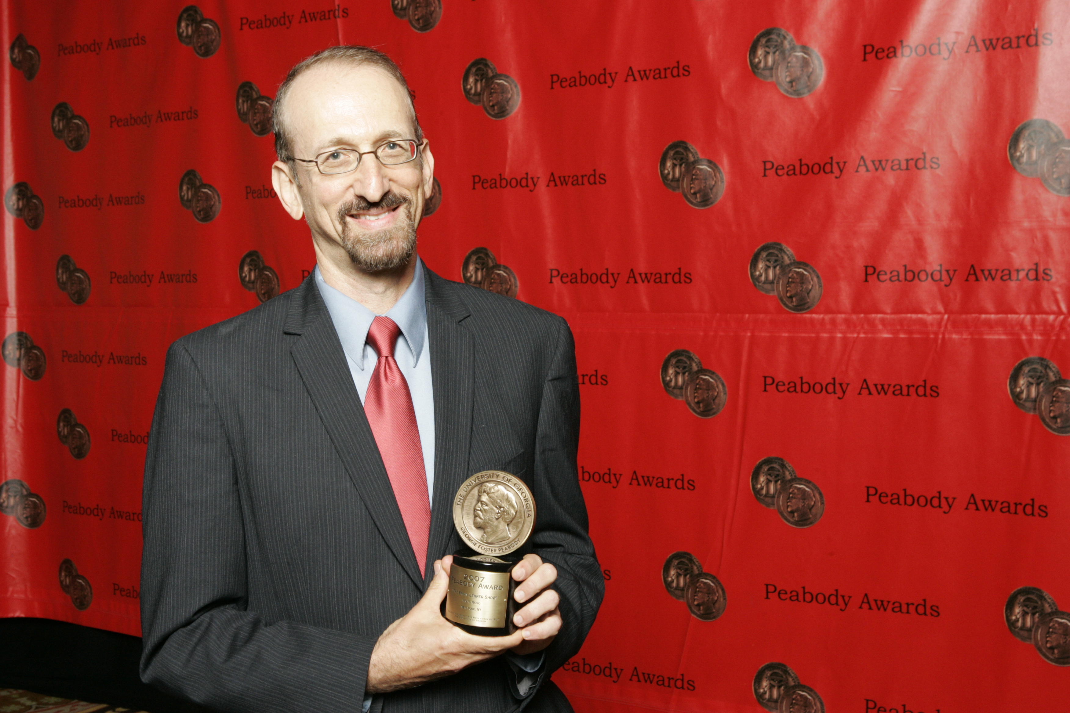 Brian Lehrer 67th Annual Peabody Awards Luncheon Waldorf=Astoria Hotel New York, NY USA June 16, 2008